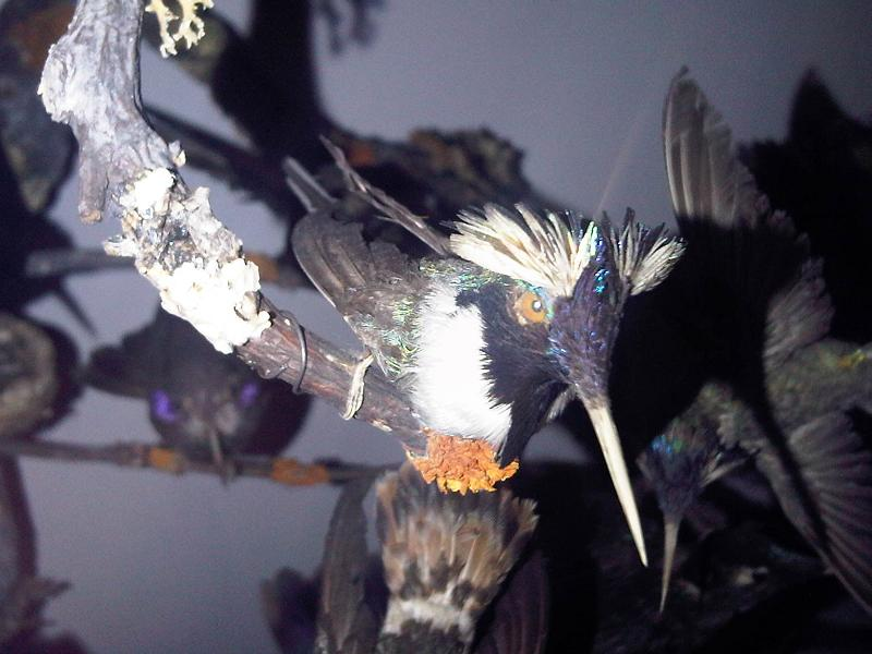 Taxidermied Horned Sungem (Heliactin bilophus) at the Natural History Museum in London, England.